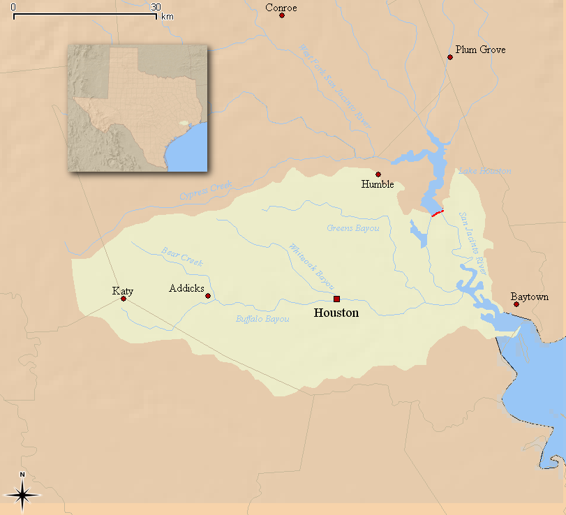 This is a map of the Buffalo Bayou watershed in Texas. I, Kuru, created from data originating at the USGS.